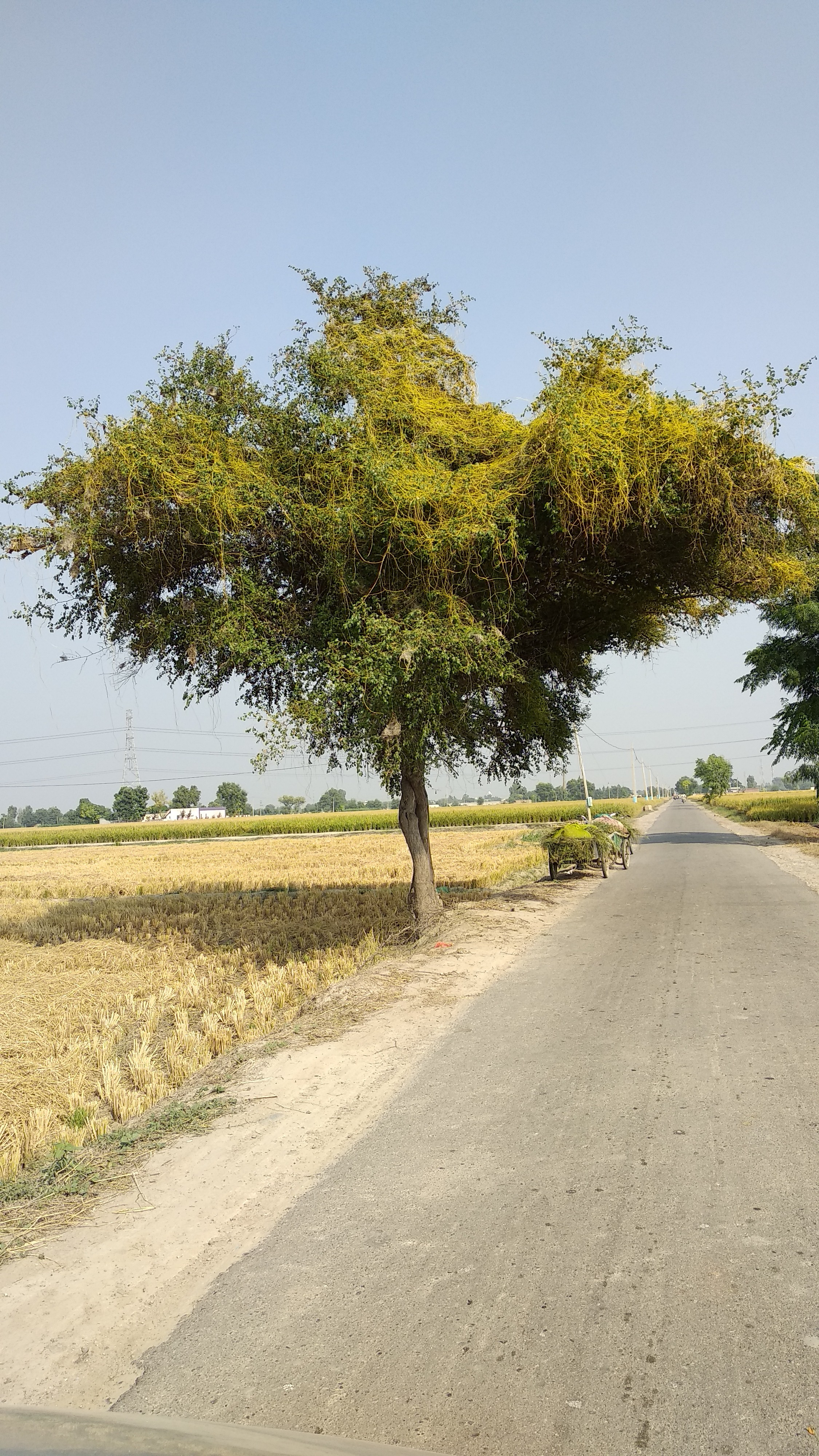 Cuscuta on Ziziphus mauritiana Tree in Punjab, India ਪੰਜਾਬੀ: ਪੰਜਾਬ, ਭਾਰਤ ਵਿੱਚ ਬੇਰੀ ਦੇ ਬੂਟੇ 'ਤੇ ਚੜ੍ਹੀ ਹੋੲੀ ਅਮਰਵੇਲ